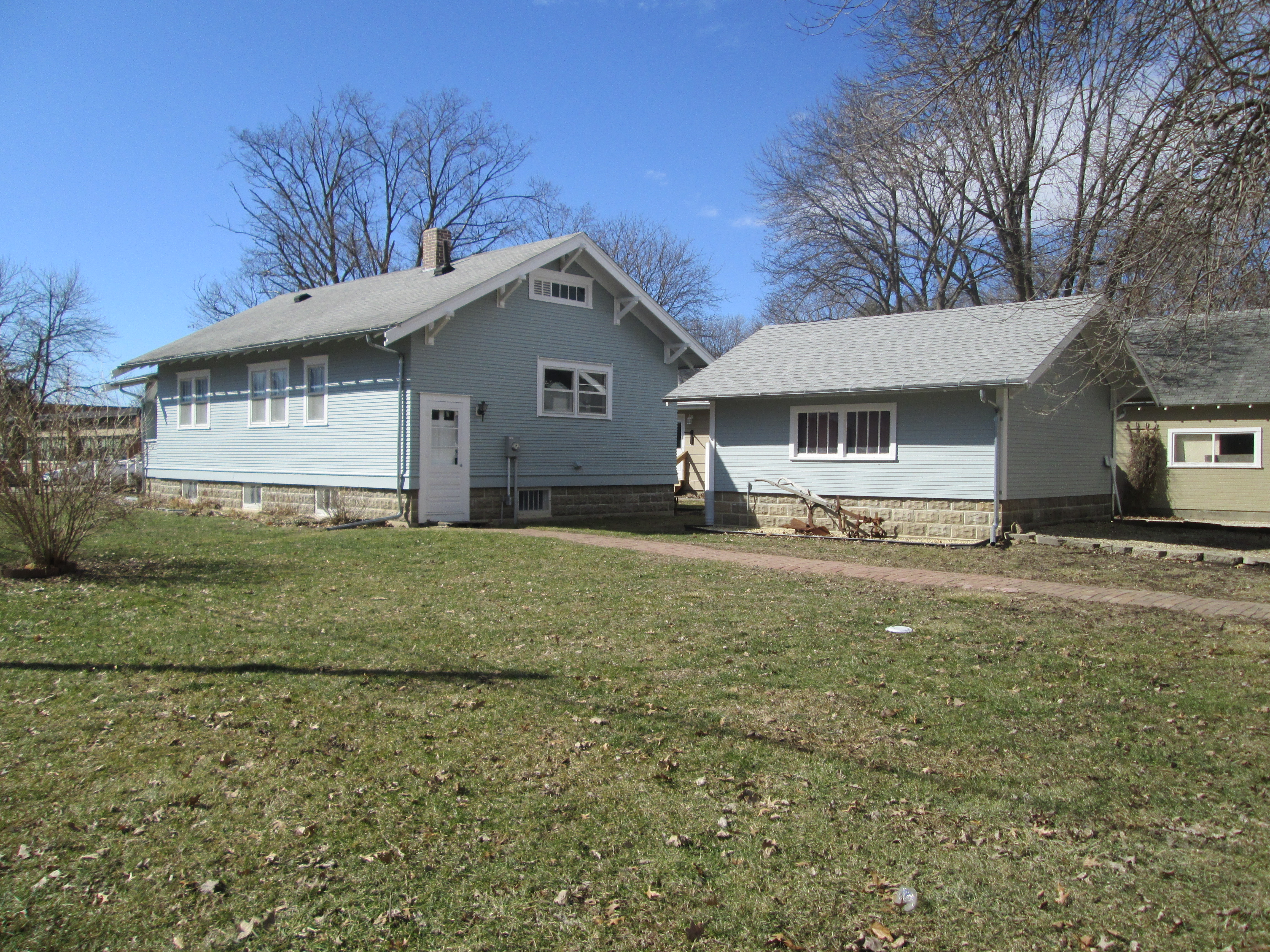 Charles H. & Theresa H. McBride Bungalow